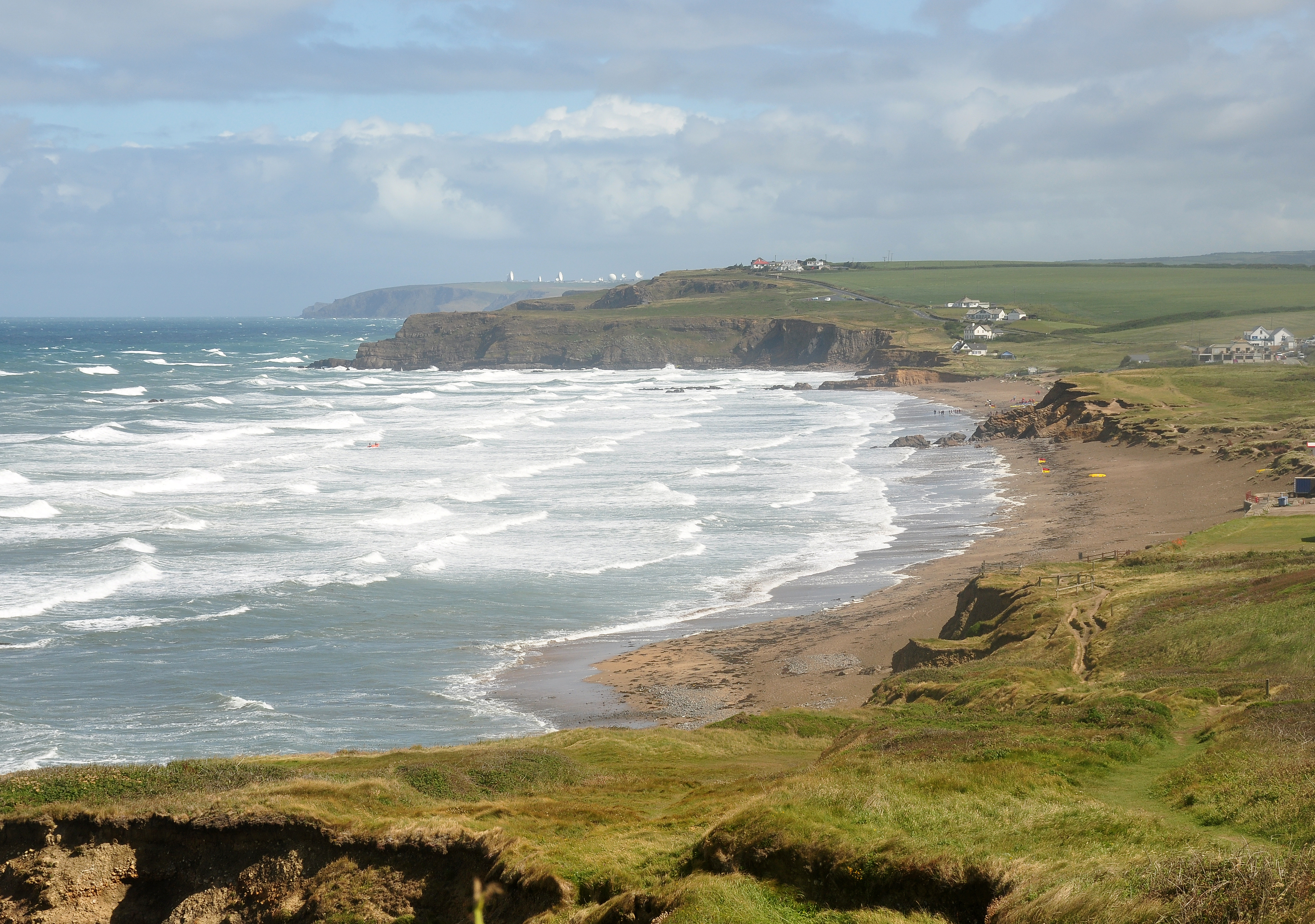 View north across Widemouth Bay, near Bude in Cornwall, with the satellite dishes of GCHQ Bude visible in the distance.